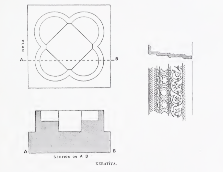 Karatiyya decoration